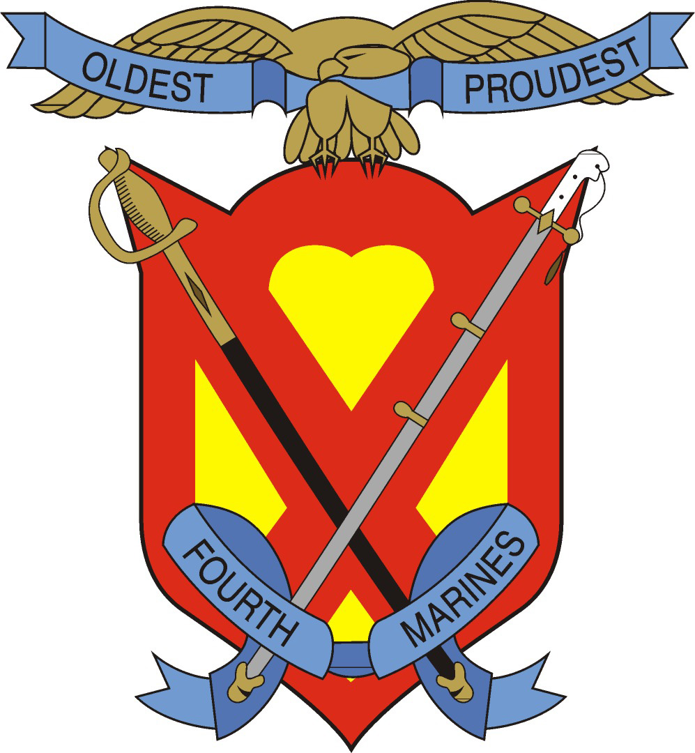 4th Marine Regiment insignia - from official Marine Corps Combat Camera Management and Image Management unit site